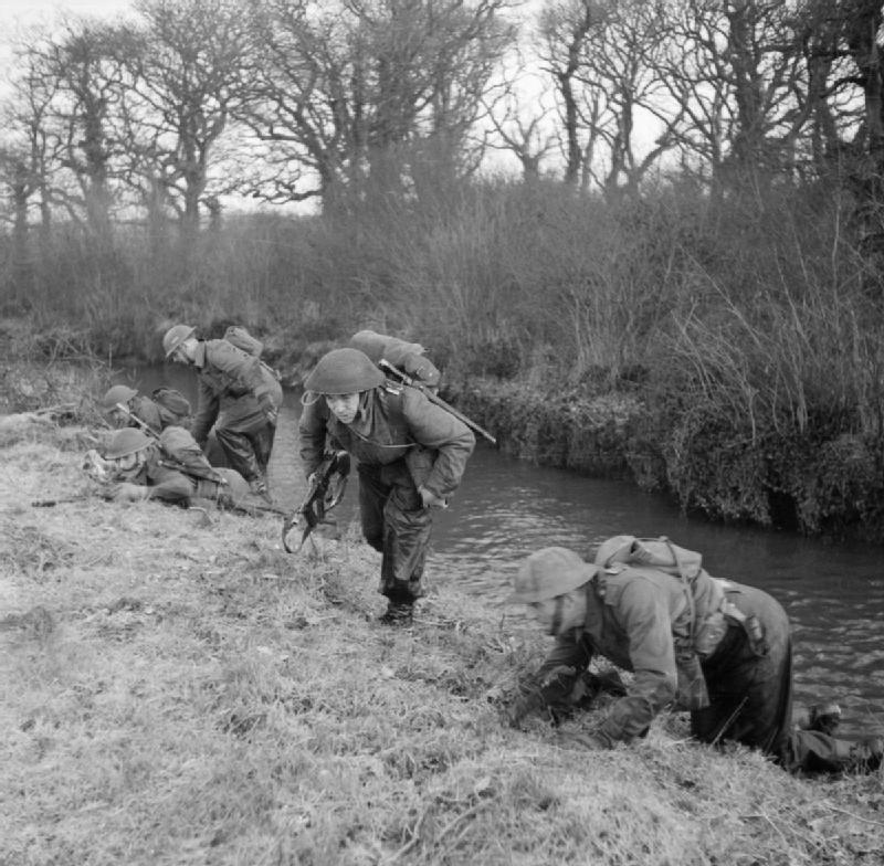 The British Army in the United Kingdom 1939-45 Troops from 47th (London) Division take cover on a riverbank during training at a battle school near Lymington in Hampshire, 8 January 1942.